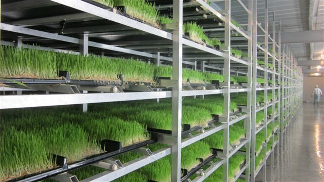 Fodder Solutions on site system in the USA.